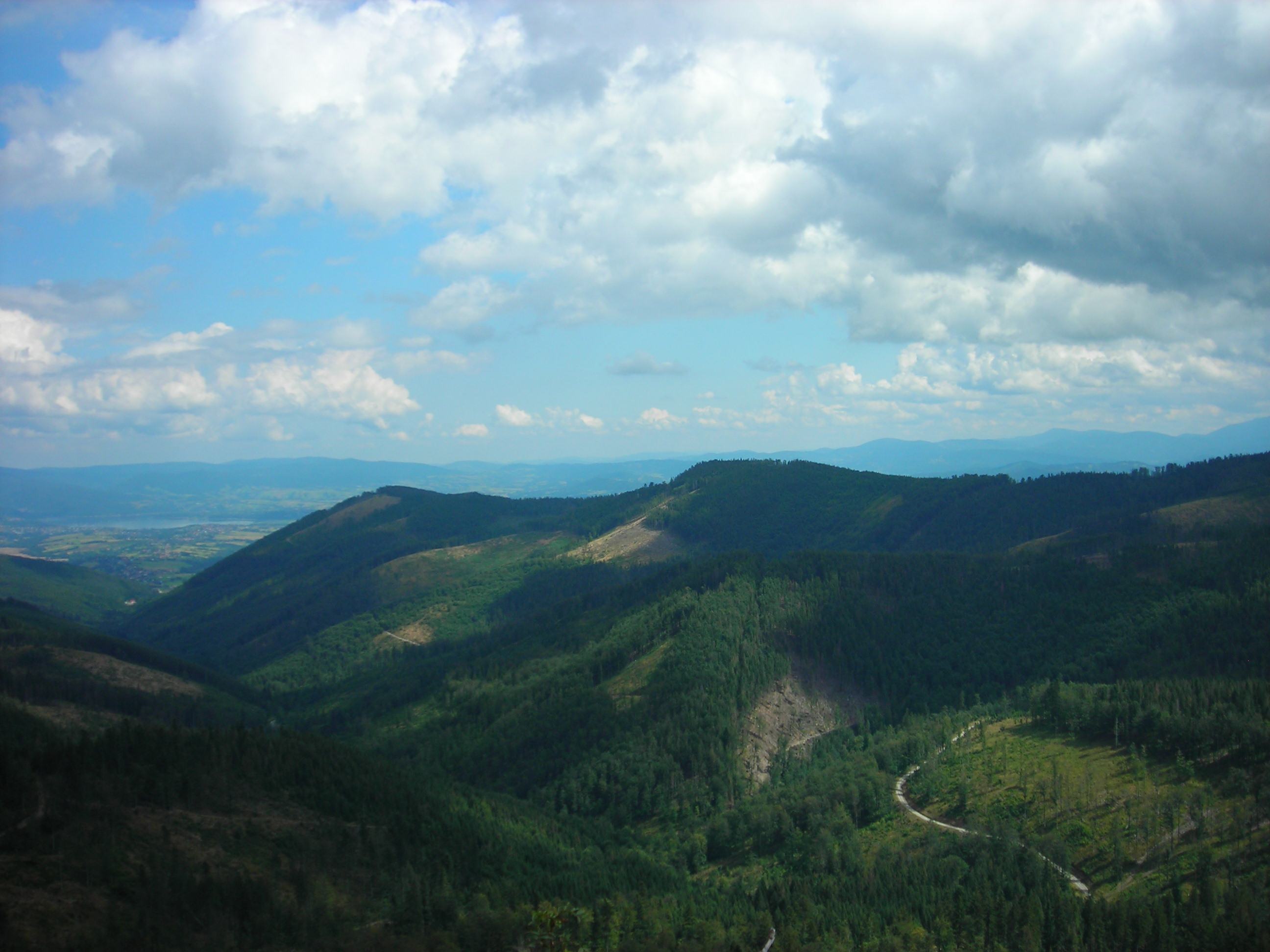 A view from Zielony Kopiec (Silesian Beskids, Poland) in direction of Żywiec